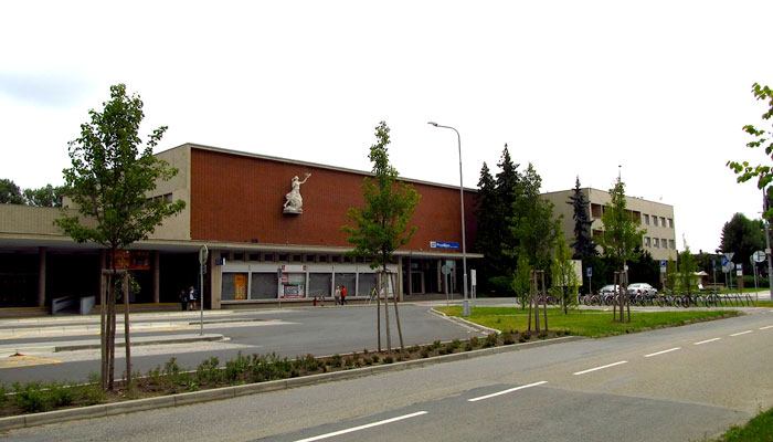 Prostejov Railroad Station front view by the architect Jaroslav Otruba